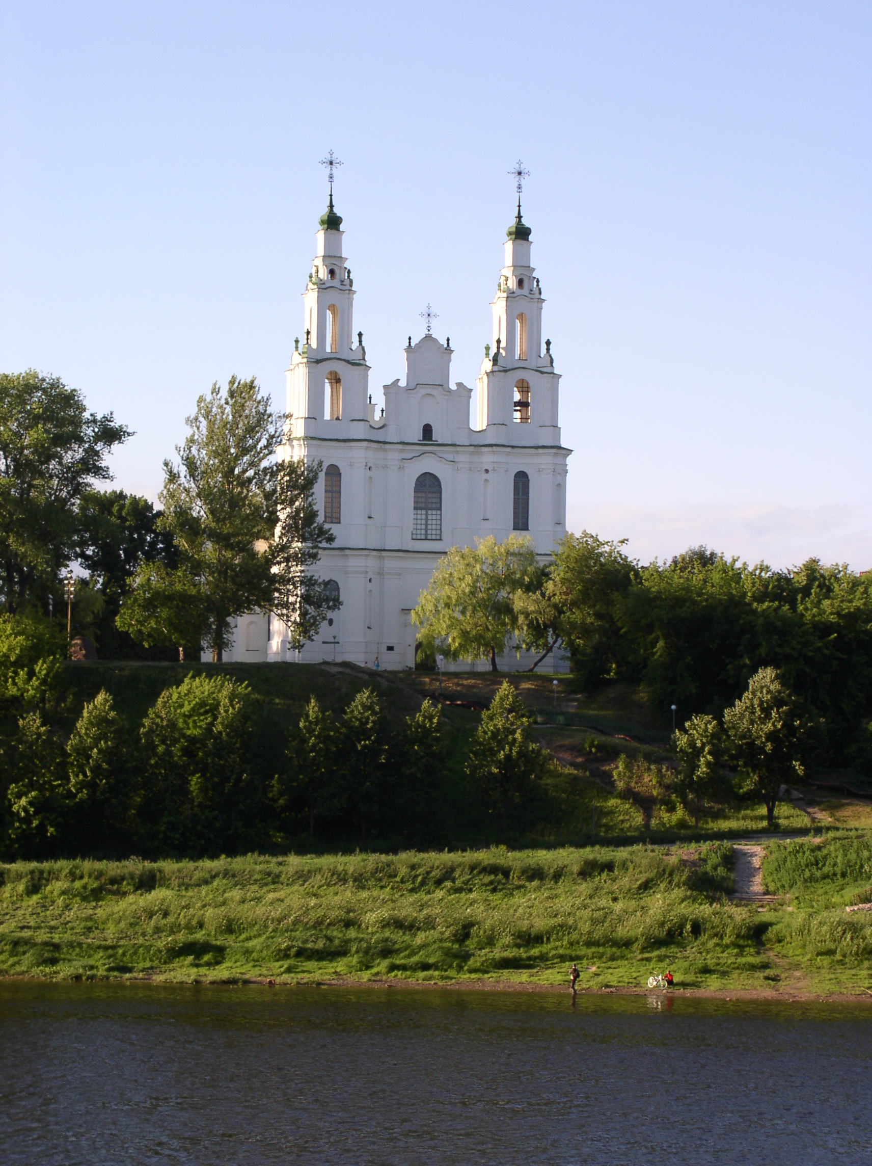 Cathedral of Saint Sophia. Polatsk, Belarus.